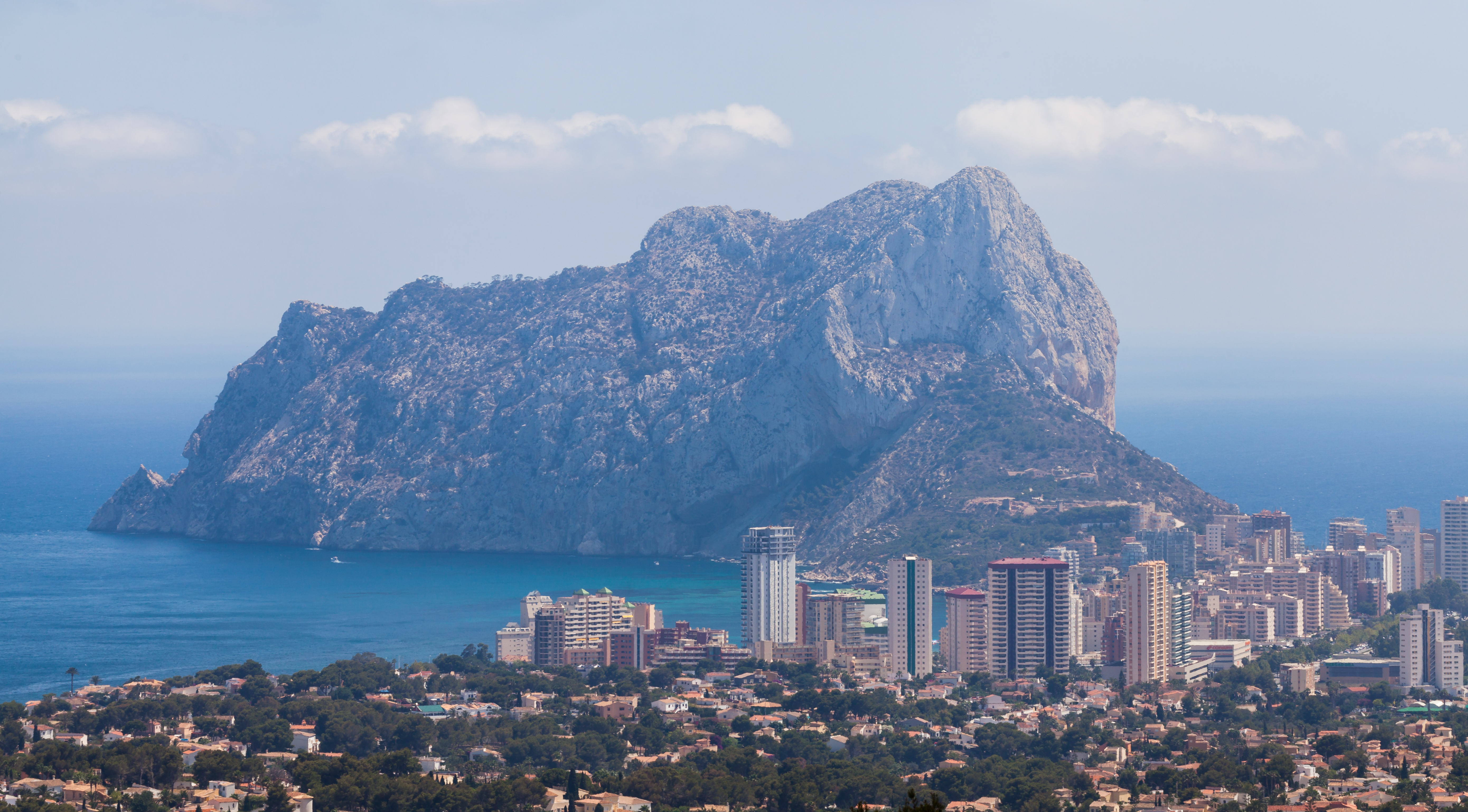 Rock of Ifach, Calpe, Spain